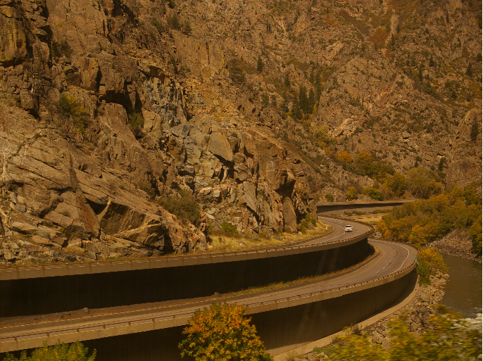 Interstate 70 inside Glenwood Canyon as seen from the California Zephyr